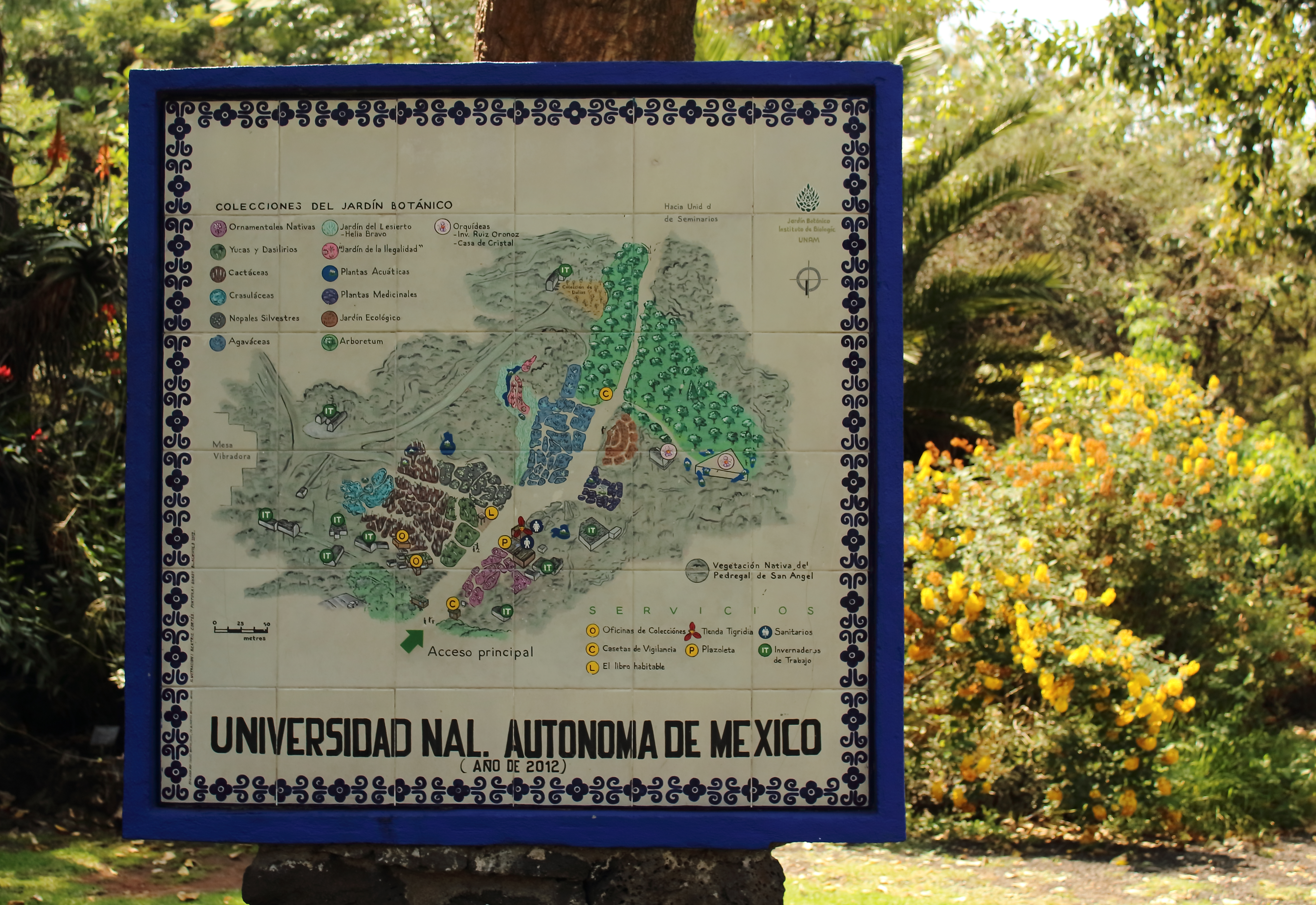 Map of the botanical garden located in Ciudad Universitaria, Mexico.